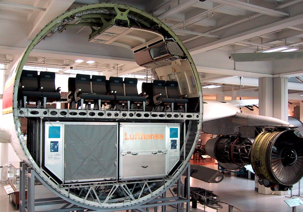 Airbus A300 fuselage cross-section, showing the passenger compartment above and cargo containers below. On display at the Deutsches Museum in Munich, Germany.